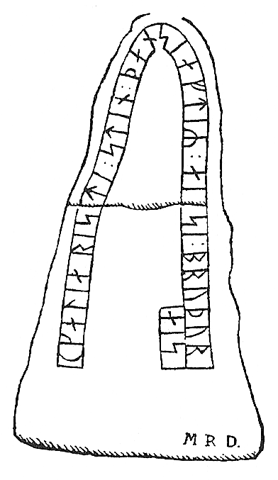 Runestone DR 351, "Skånestenen" (en. The Skåne stone), depicted by Magnus Dublar Rönnou in 1716. The runestone is since then not to be found.